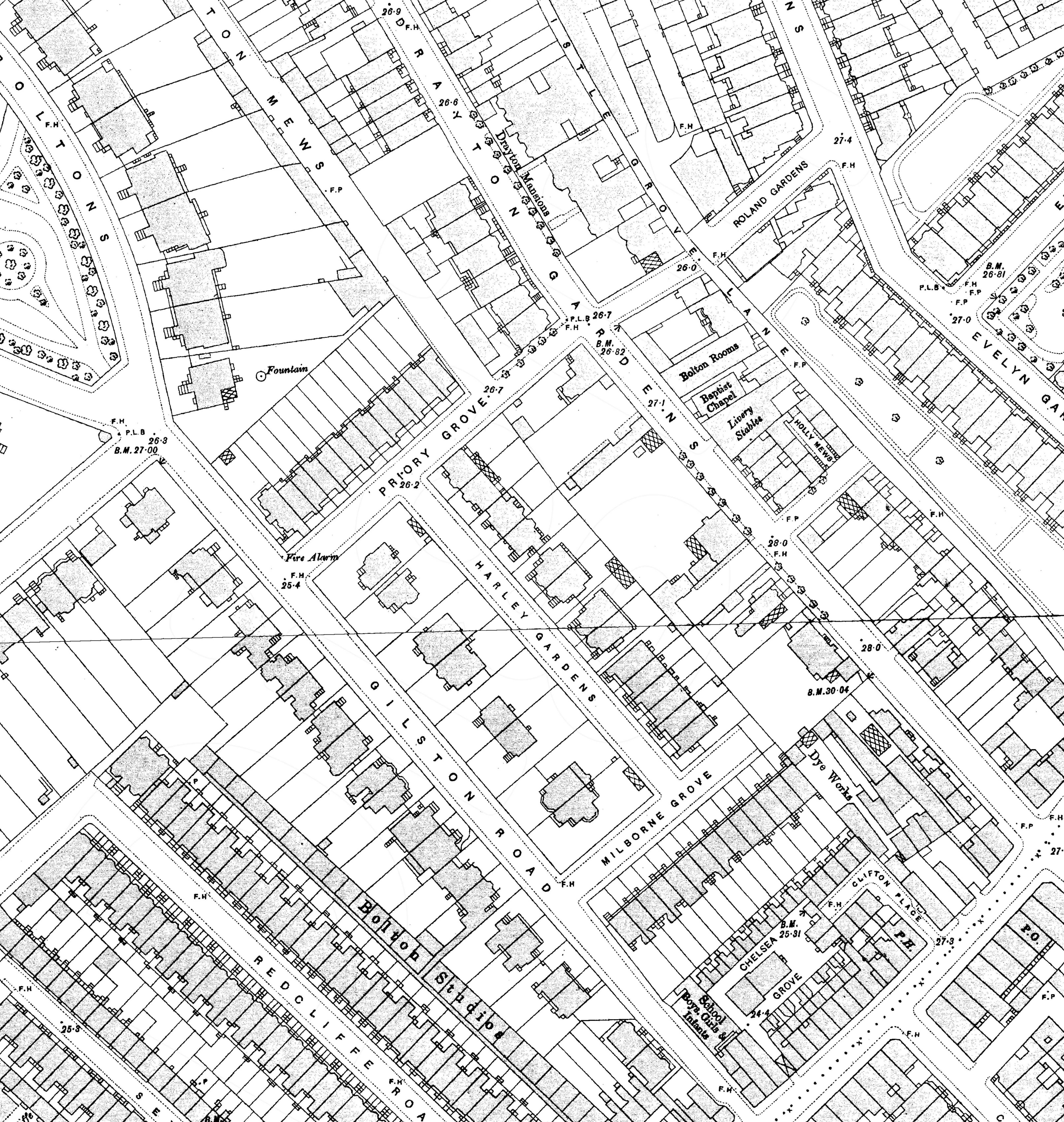 Harley Gardens Ordnance Survey map 1890s.